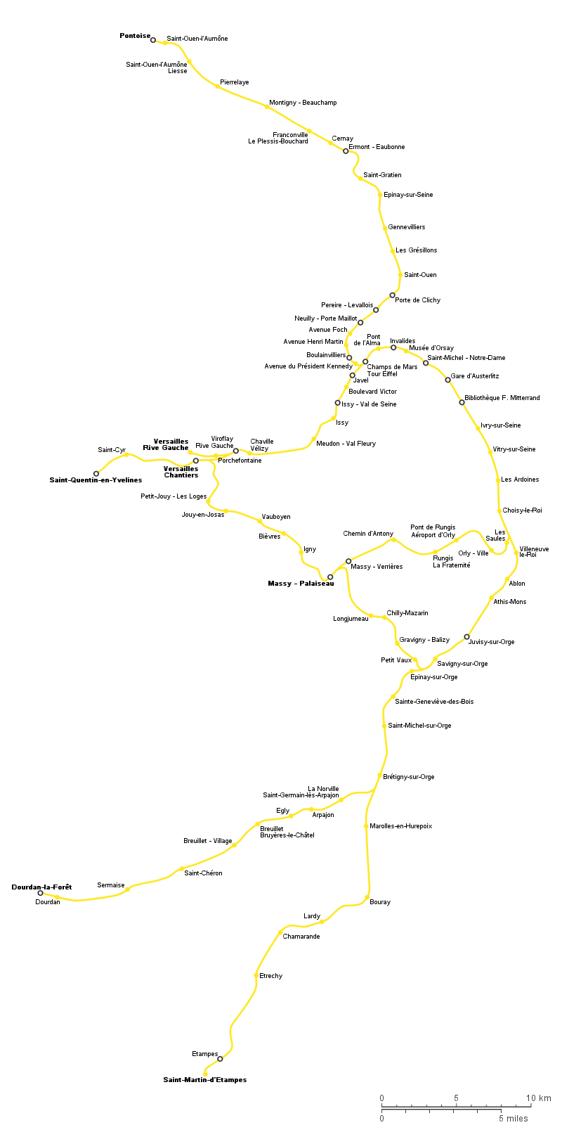 Geographically accurate path of the line C of Paris RER (made by Metropolitan).